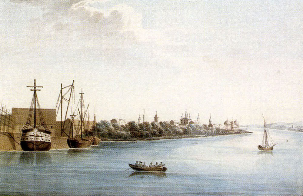 This is view on bank Northern Dvina river in Arkhangelsk. This picture was made by Valerian Galyamin in 1826 year.